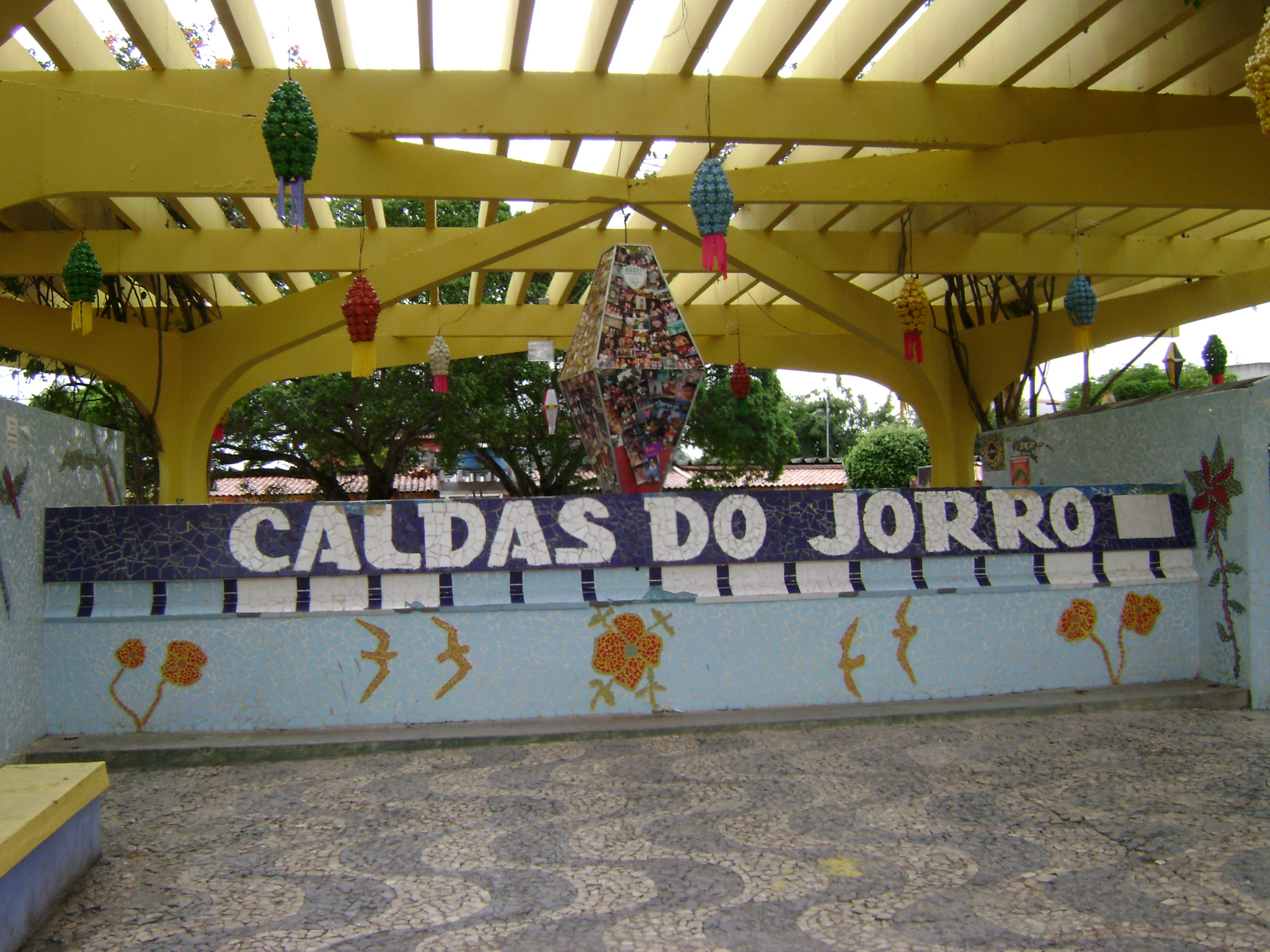 Estância decorada, em Caldas do Jorro, Bahia, Brasil.